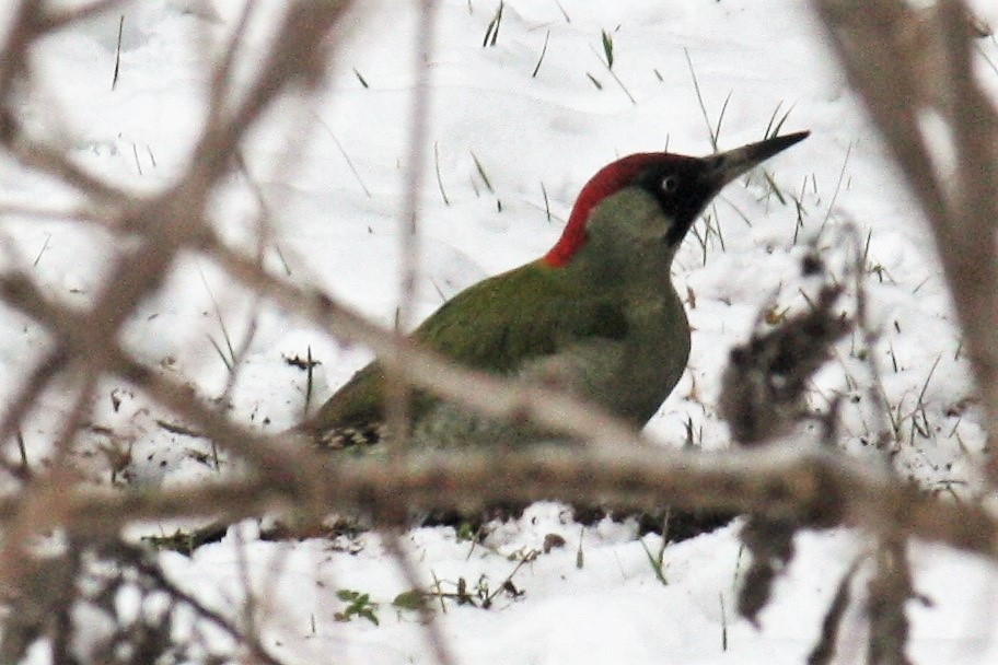 Green Woodpecker in winter, Markt Schwaben, Bavaria, Germany